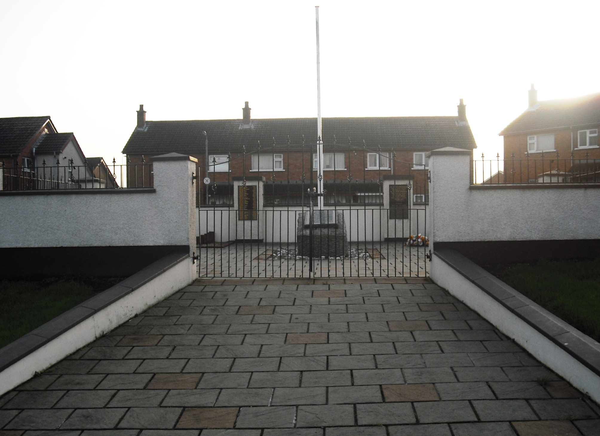 Memorial and garden of remembrance to republican activists and local civilians killed in the Bawnmore area, Bawnmore Crescent, Newtownabbey